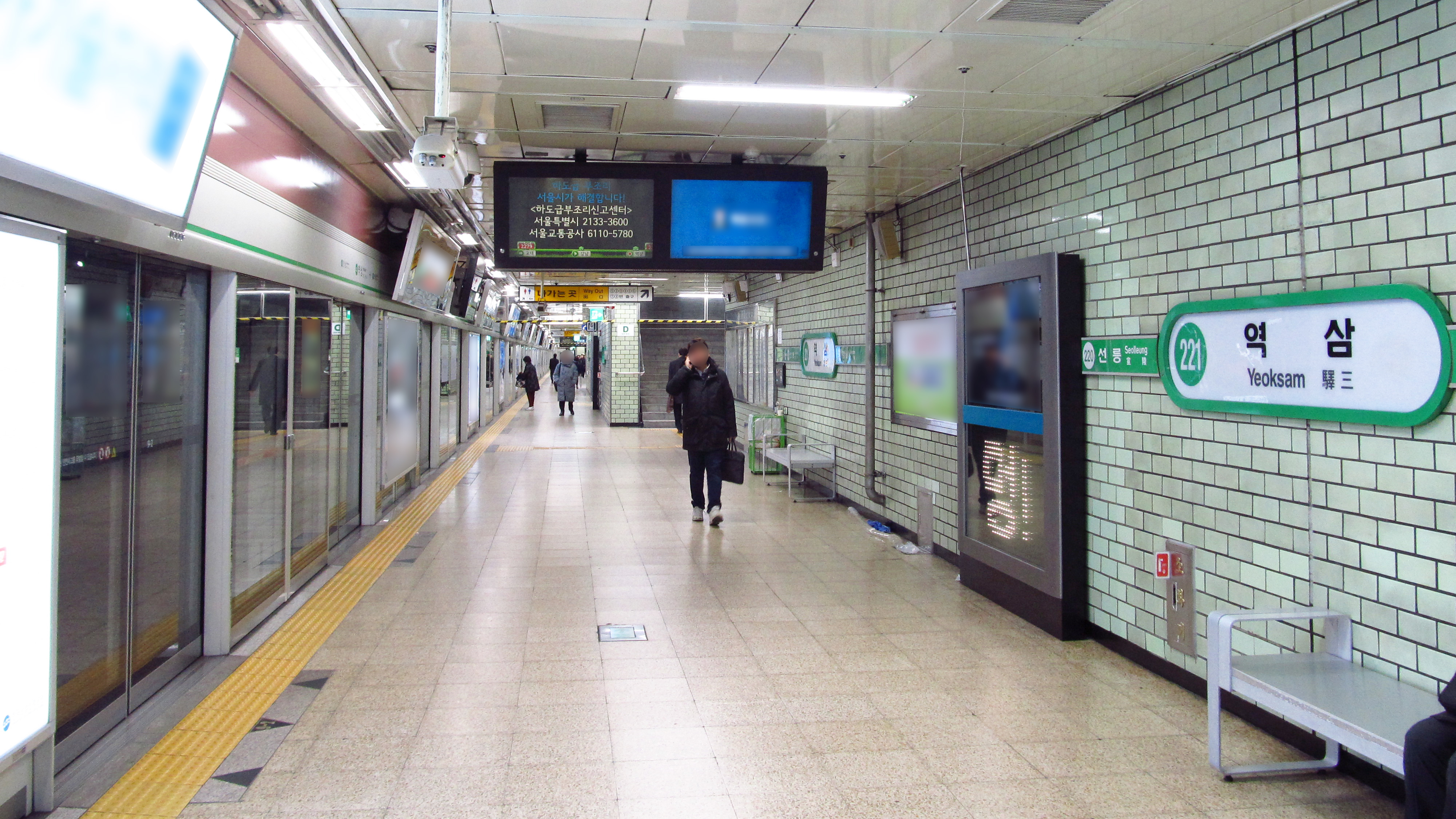 The platform at Yeoksam Station on Seoul Subway Line 2 in Gangnam-gu, Seoul, Republic of Korea(South Korea)